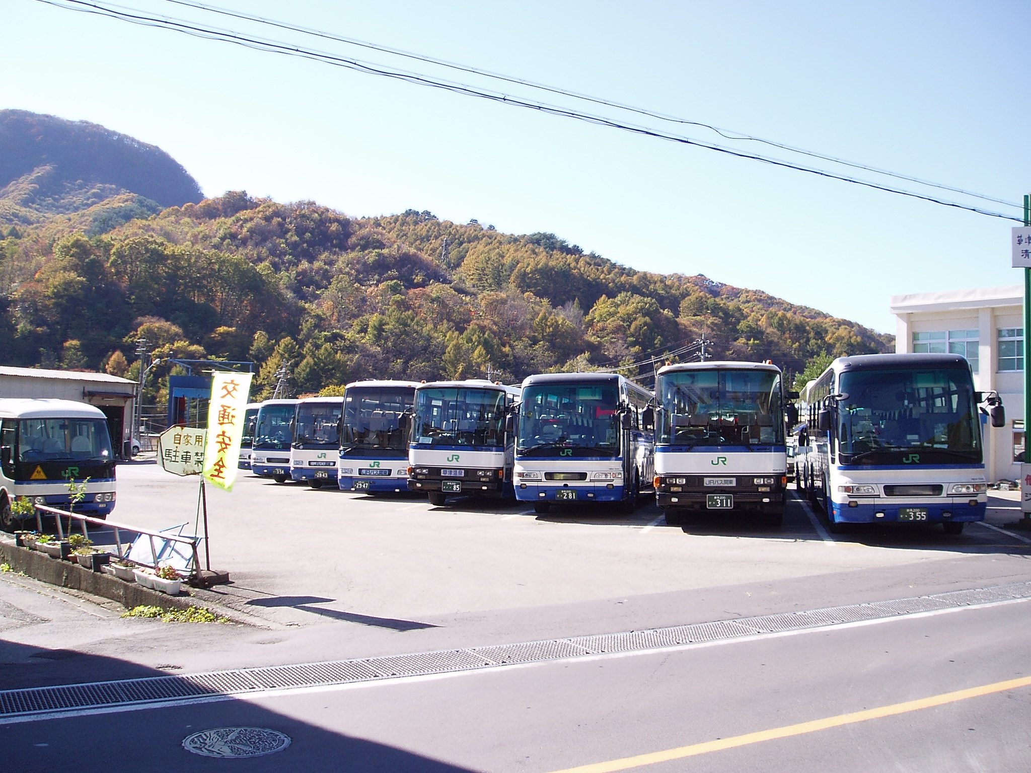 JR Bus Kanto Naganohara Branch